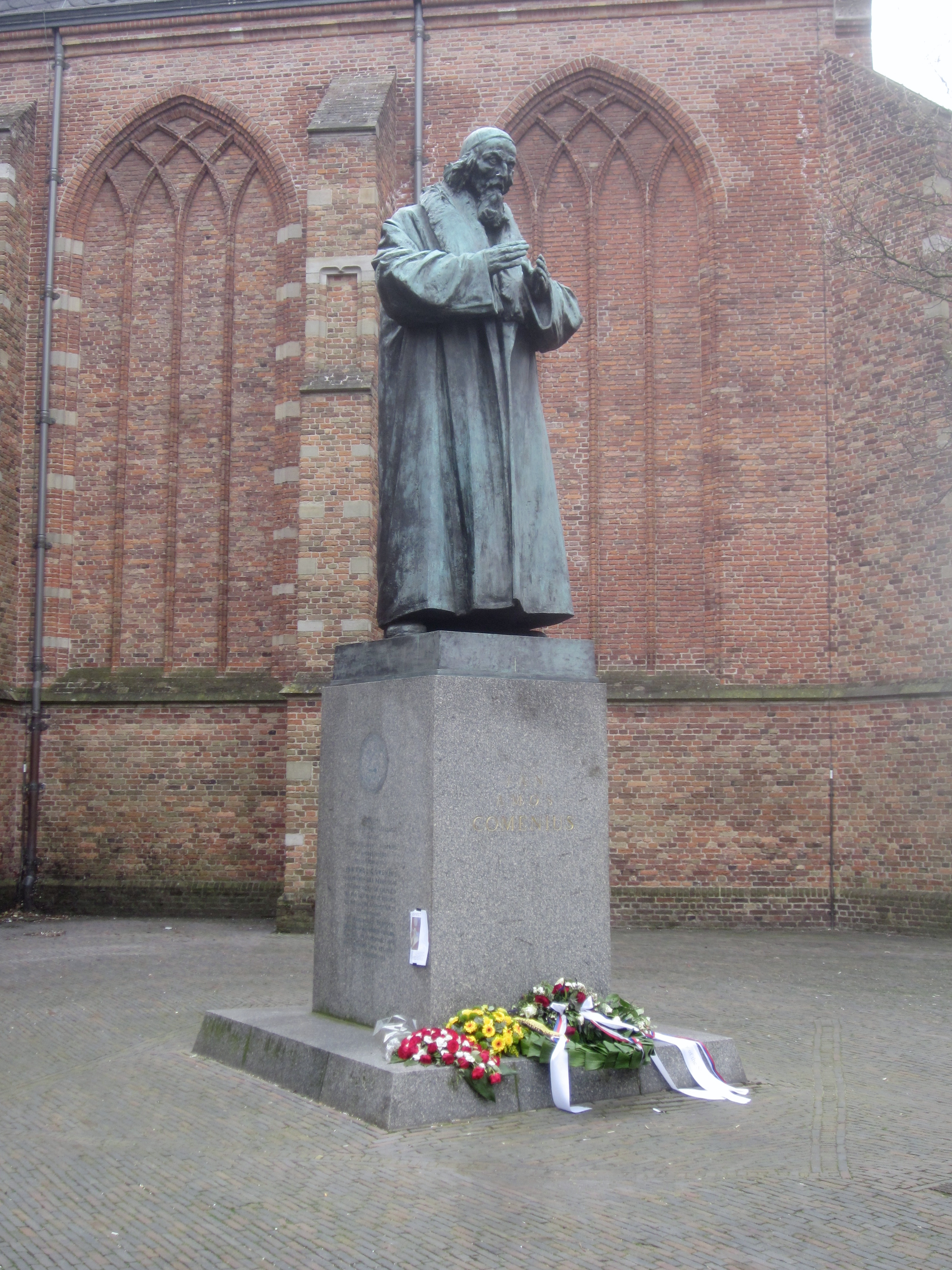 Jan Amos Comenius Vincenc Makovský Markstraat Naarden